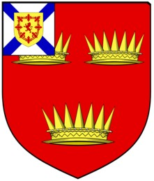 The Arms of BARON STRATHSPEY